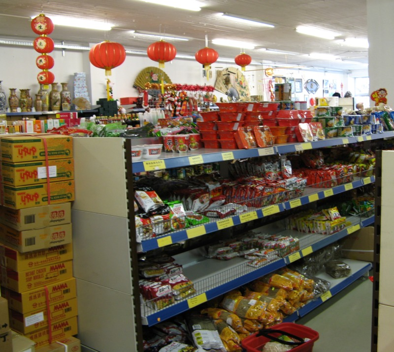 In the asia supermarkt ("Asialaden") in Germany. See also: Image:Asia_Markt_in_Germany_1.jpg